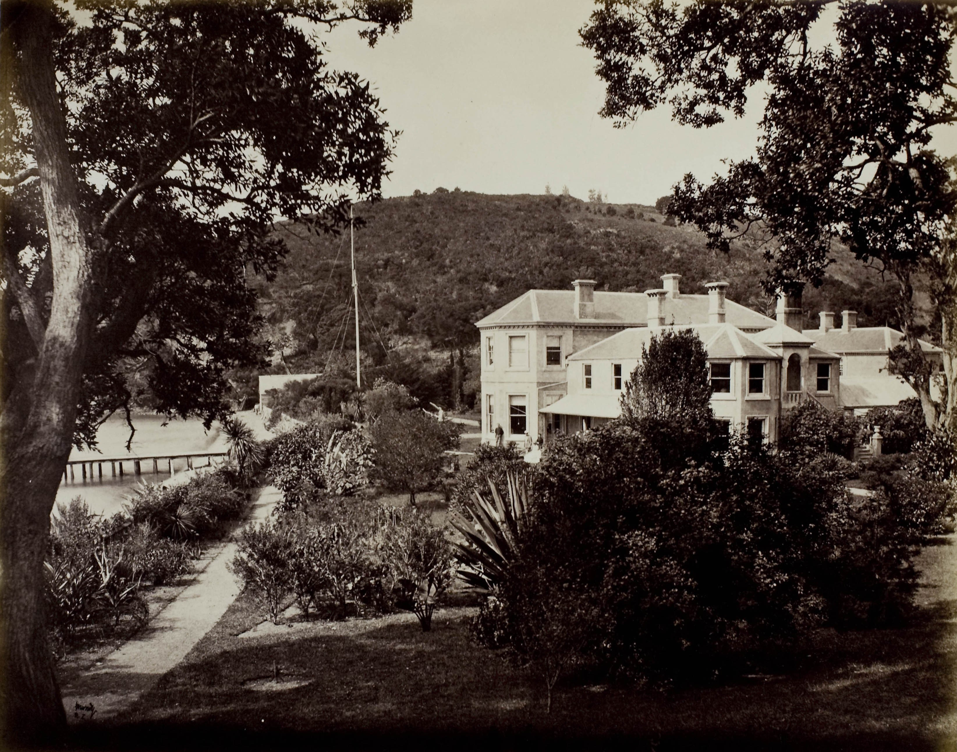 Mansion House, Kawau Island, New Zealand. Photograph Album Collection no. 88, Sir George Grey Special Collections, Auckland City Libraries.